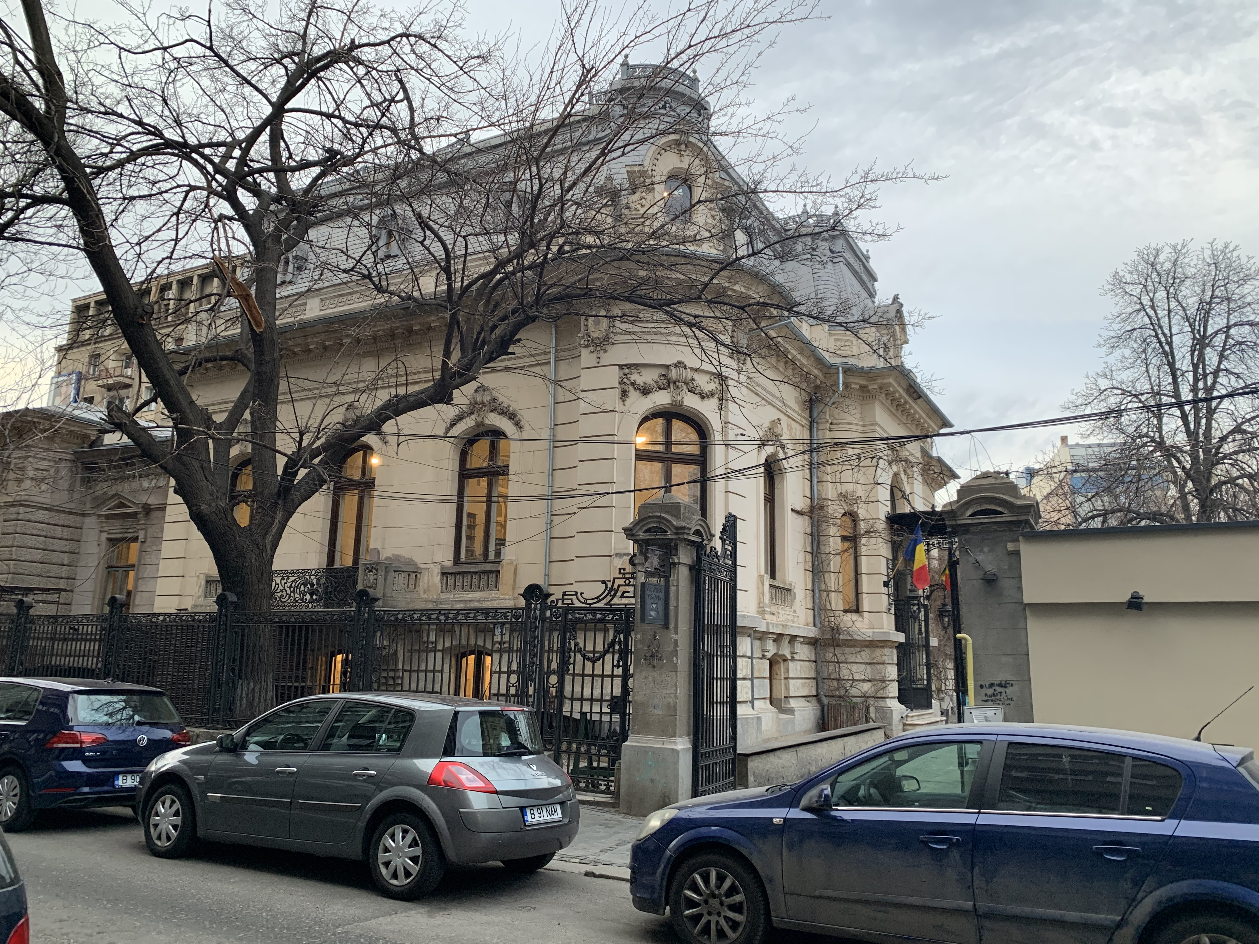 15, Strada Arthur Verona, Bucharest (Romania)